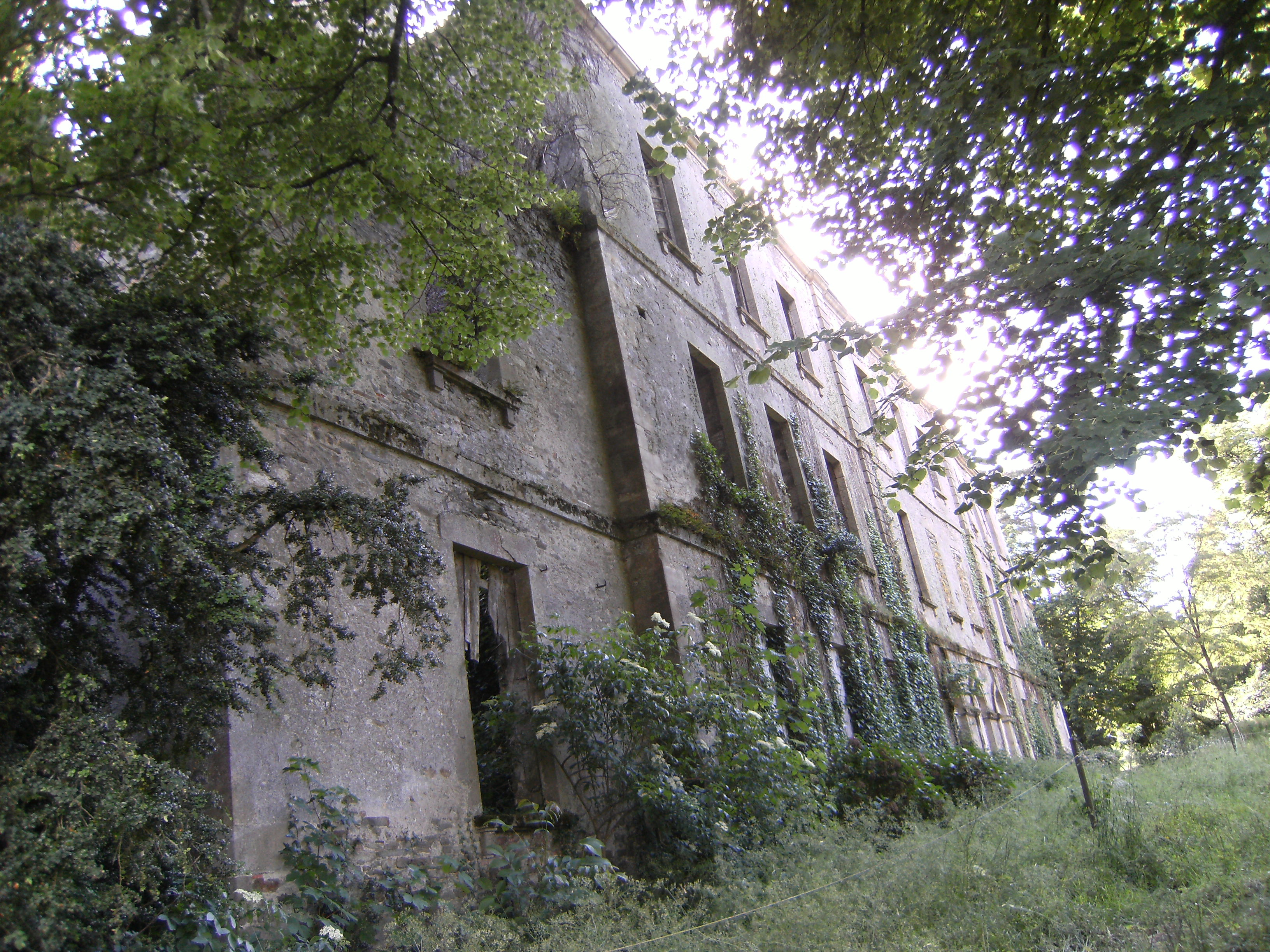 castle of Parc-Soubise ; Mouchamps (Vendée)